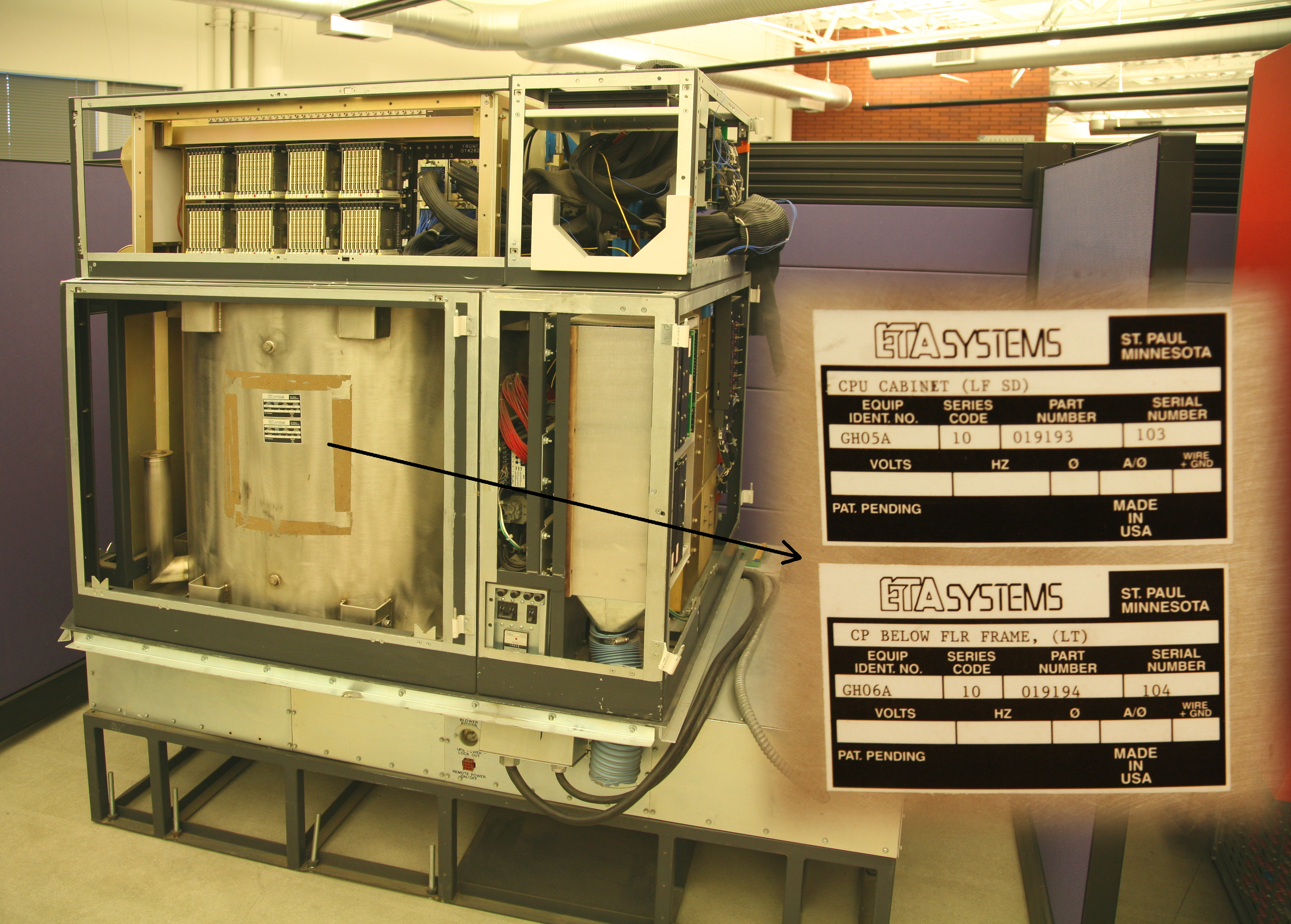 This is the ETA 10 (designed and built by a subsidiary of Control Data). It represents the dying gasp of the era of big mainframe supercomputers. You can't see the actual CPU - it was mounted in a tank of liquid nitrogen on the left (to which the labels were affixed shown here) Without the "skins" on it, I would never have recognized this machine except for the labels on it.